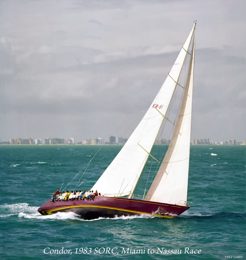 Yacht racing to Nassau, Bahamas.